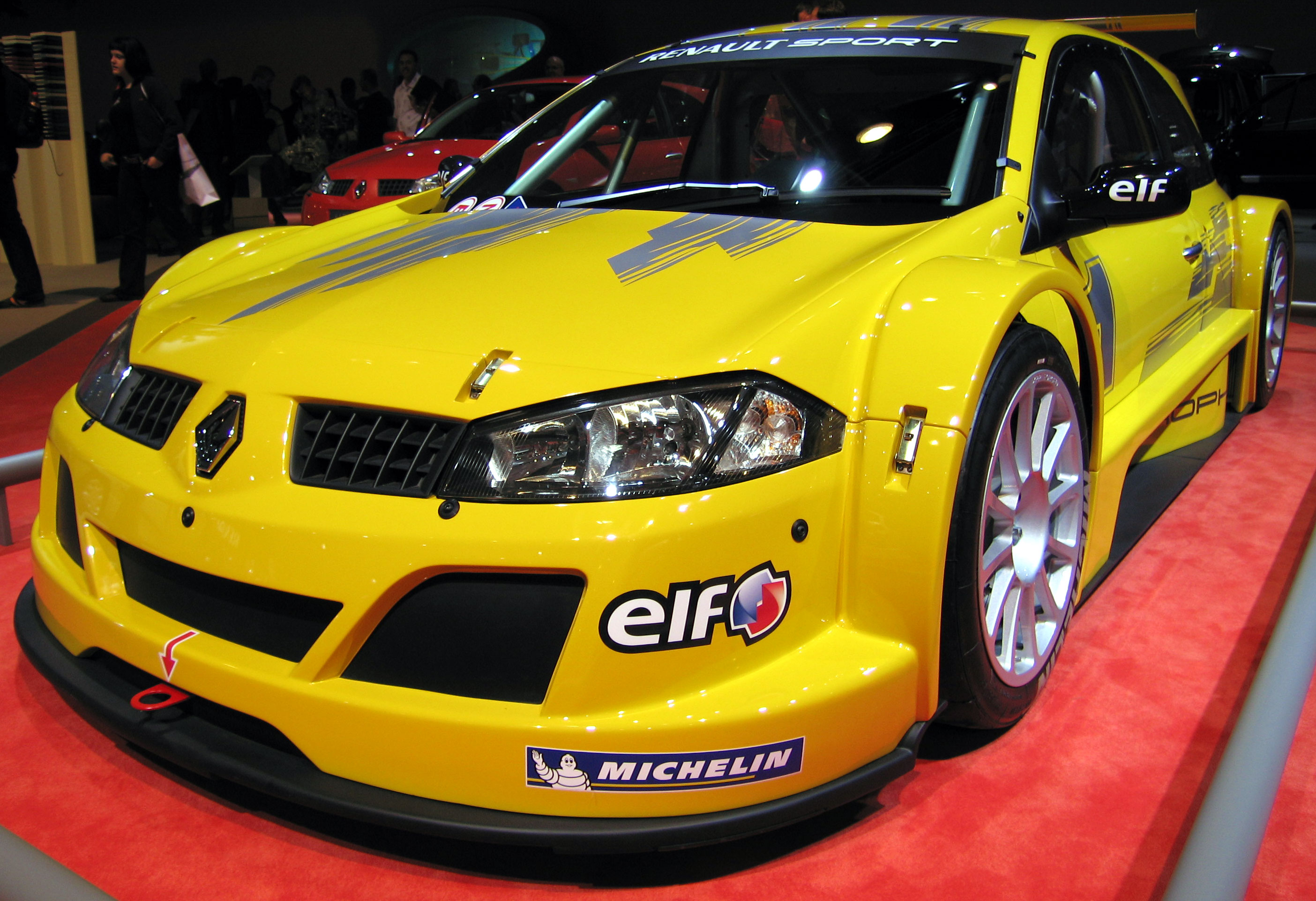 Renault Mégane at the IAA 2005